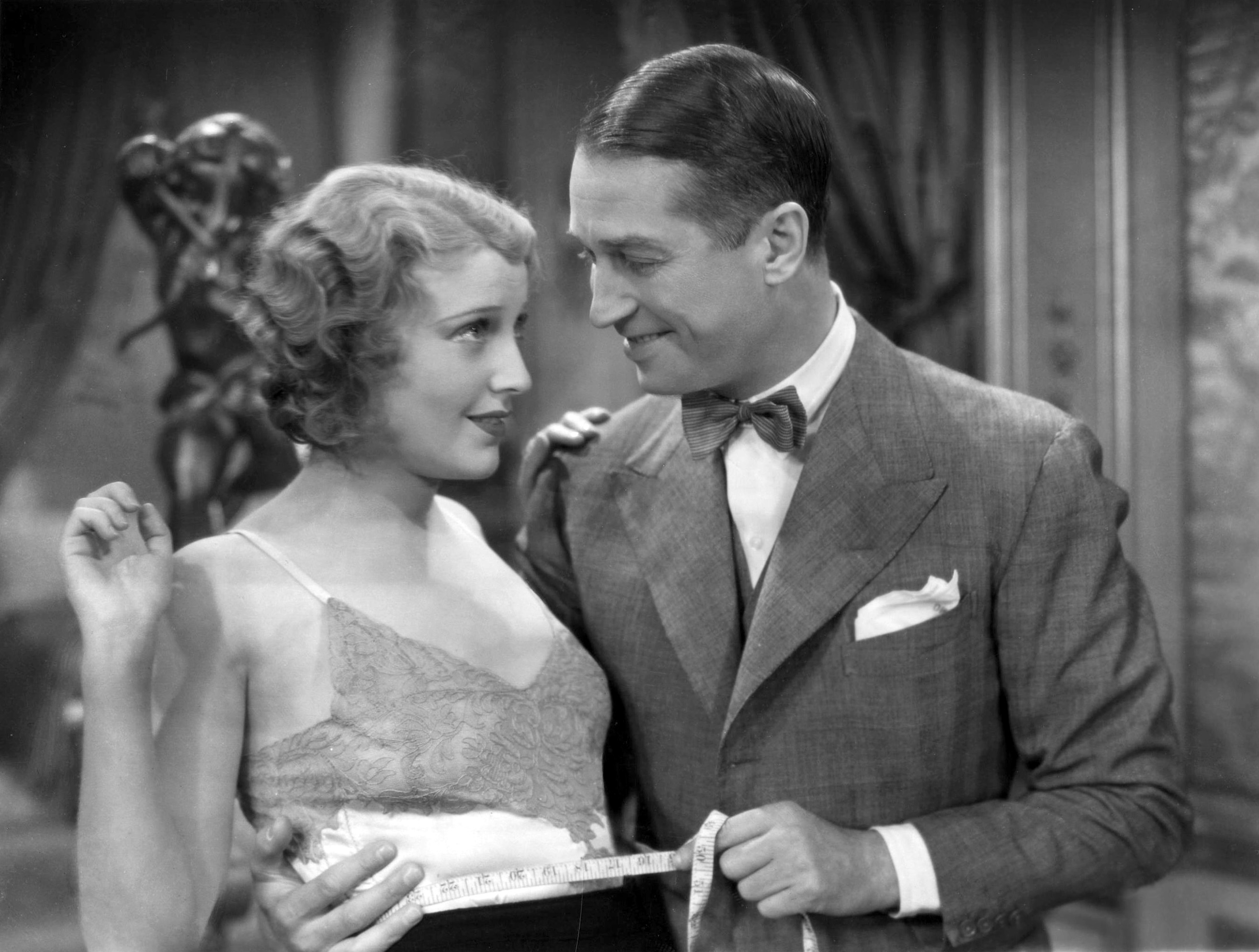 Promotional photo of Jeanette MacDonald and Maurice Chevalier in the 1932 film Dodsworth.